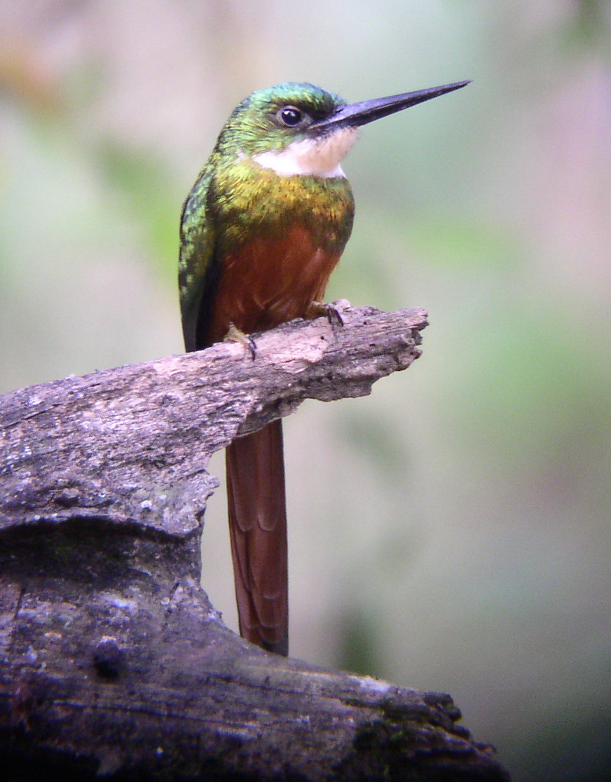 Perched male Rufous-tailed Jacamar (Galbula ruficauda), front view, Morne La Croix, Trinidad